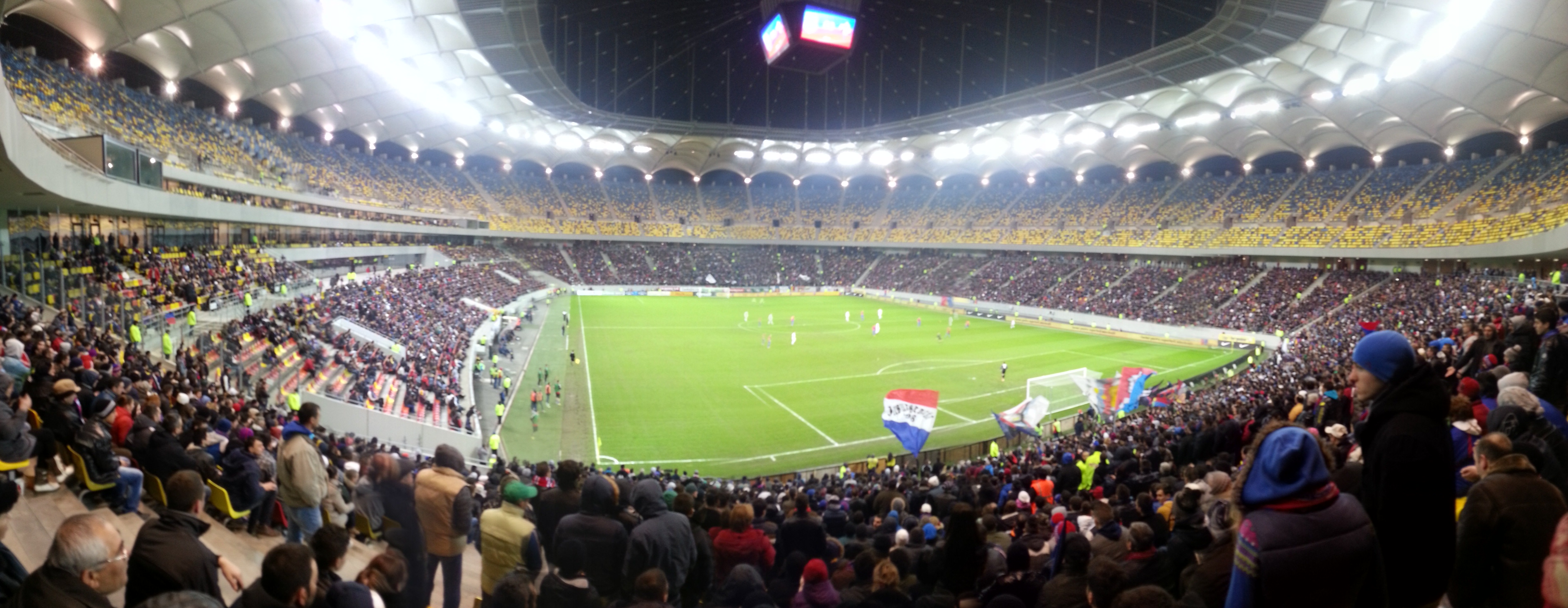 Steaua - Gaz Metan, 02.03.2013